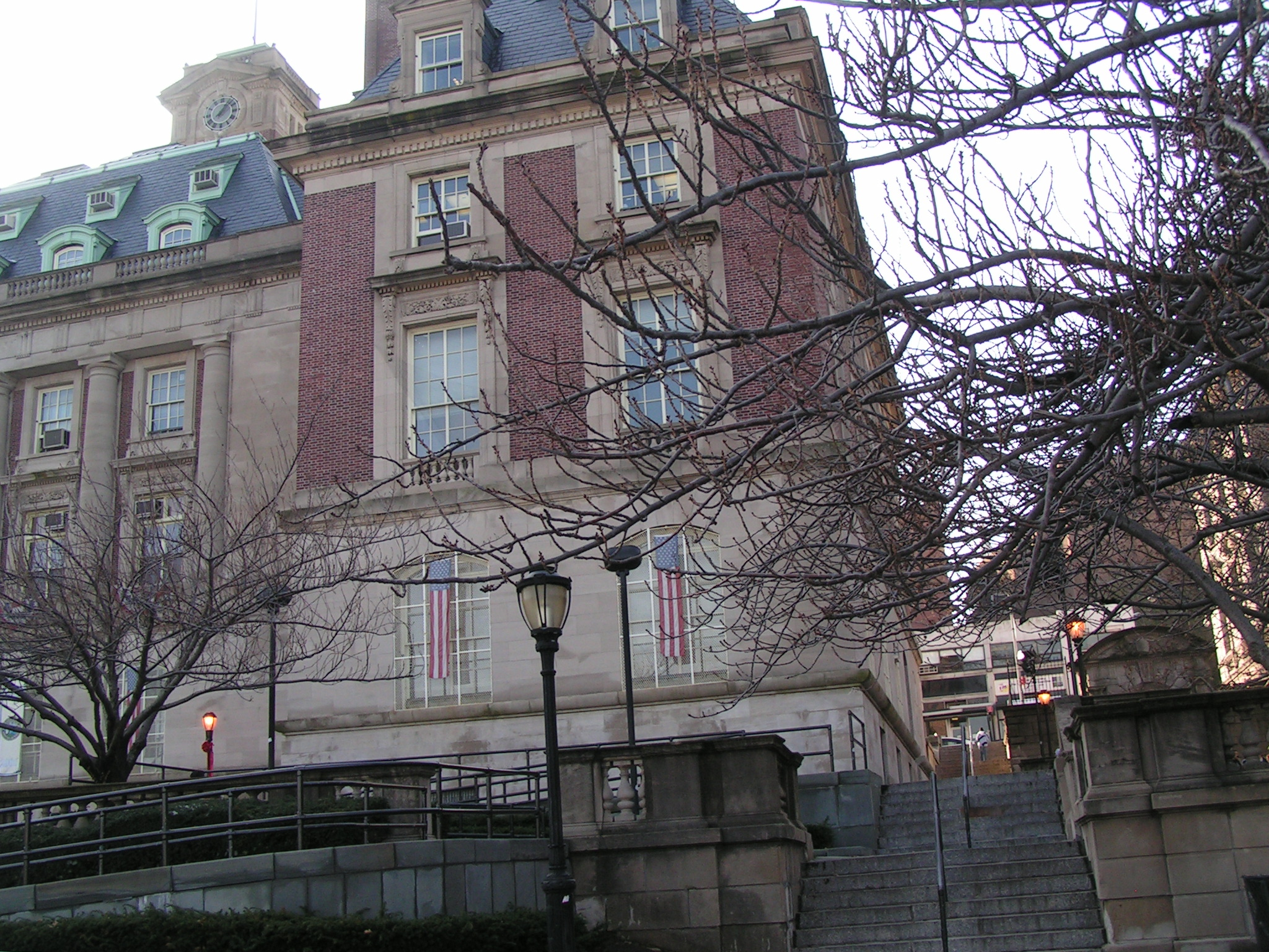 Staten Island Borough Hall